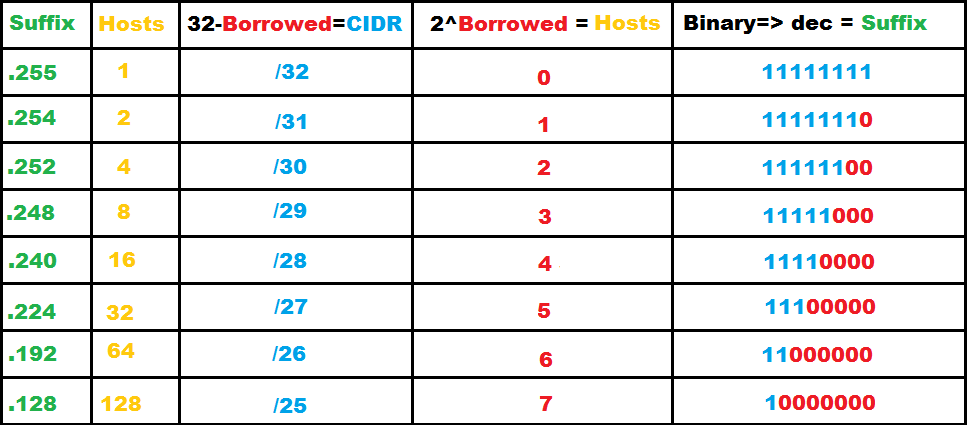 it contains the corrispondence between CIDR'notation and suffix of the subnet mask, and number of the Hosts available.